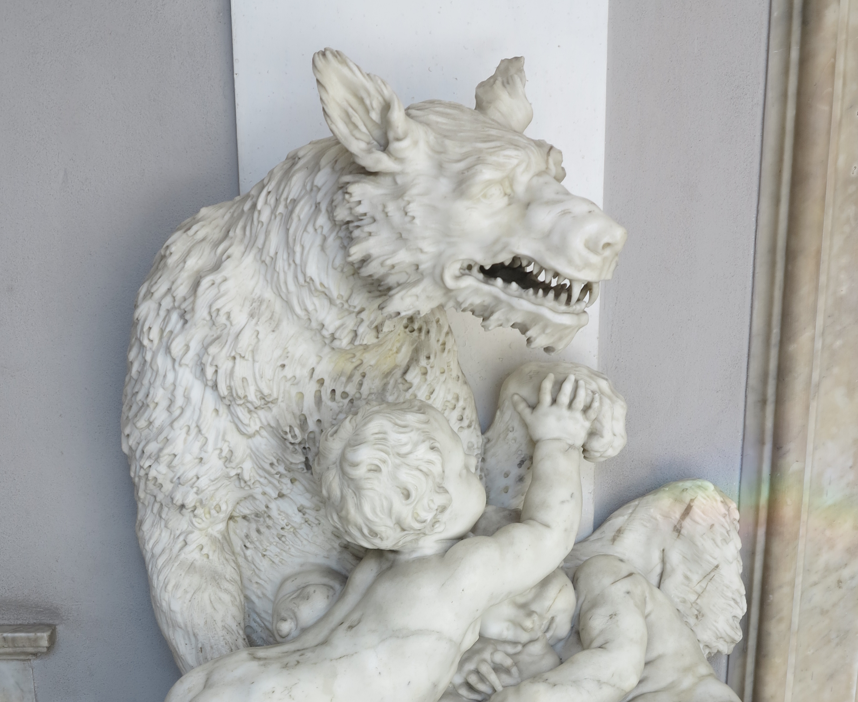 Cropped version of La lupa con Romolo e Remo di Domenico Parodi e Francesco Biggi.JPG, "The She-Wolf with Romulus and Remus" by Domenico Parodi and Francesco Biggi. Photo by Mongolo1984